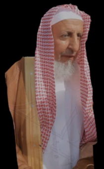 Sheikh Abdul Aziz Al -Wahab